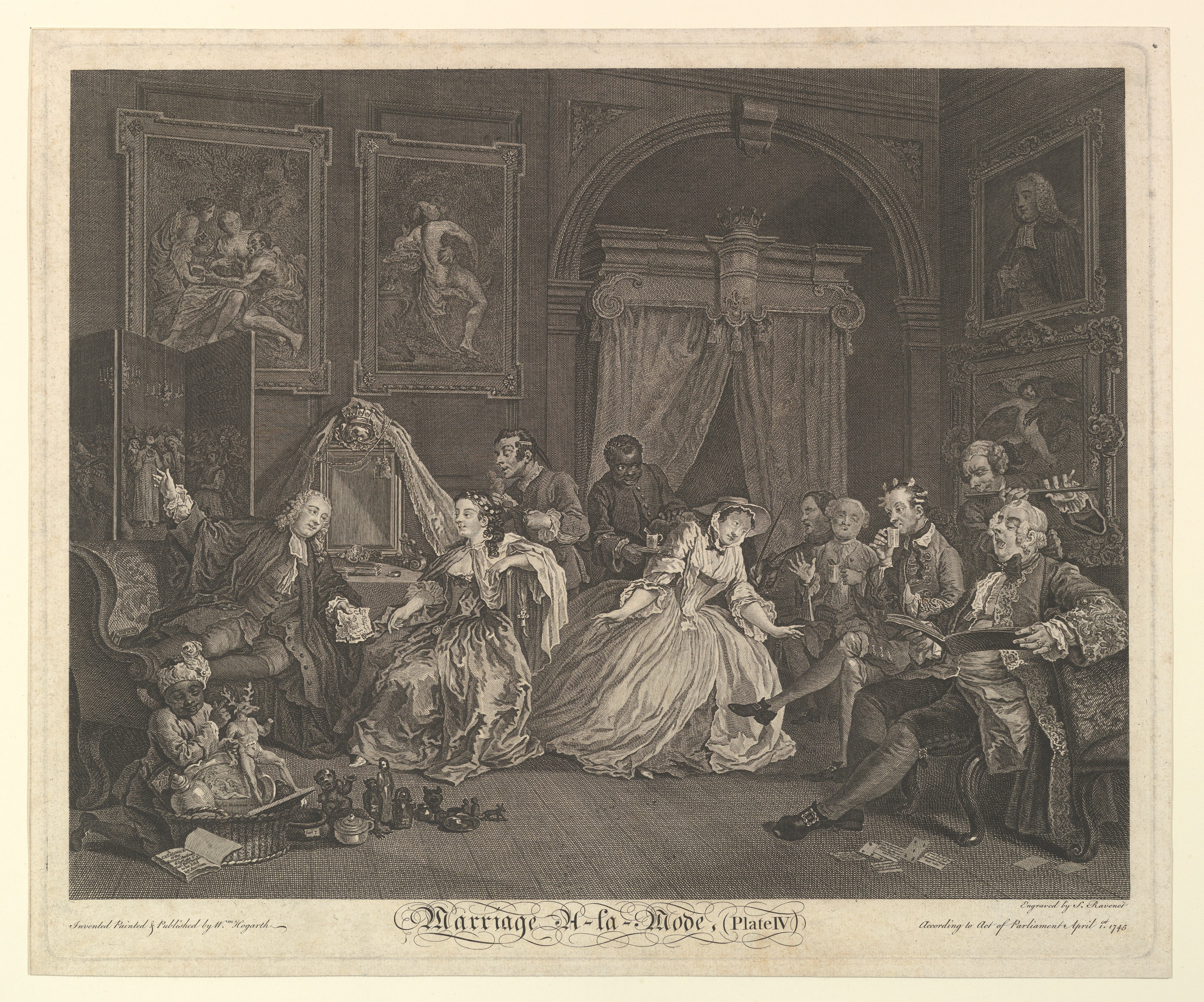 Print; Prints